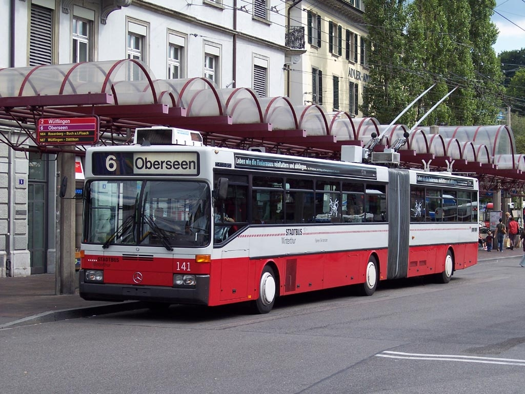 Winterthur is the only city other than Zürich to operate Mercedes-Benz O 405 GTZ articulated trolleybuses. This is number 141 outside the railway station.